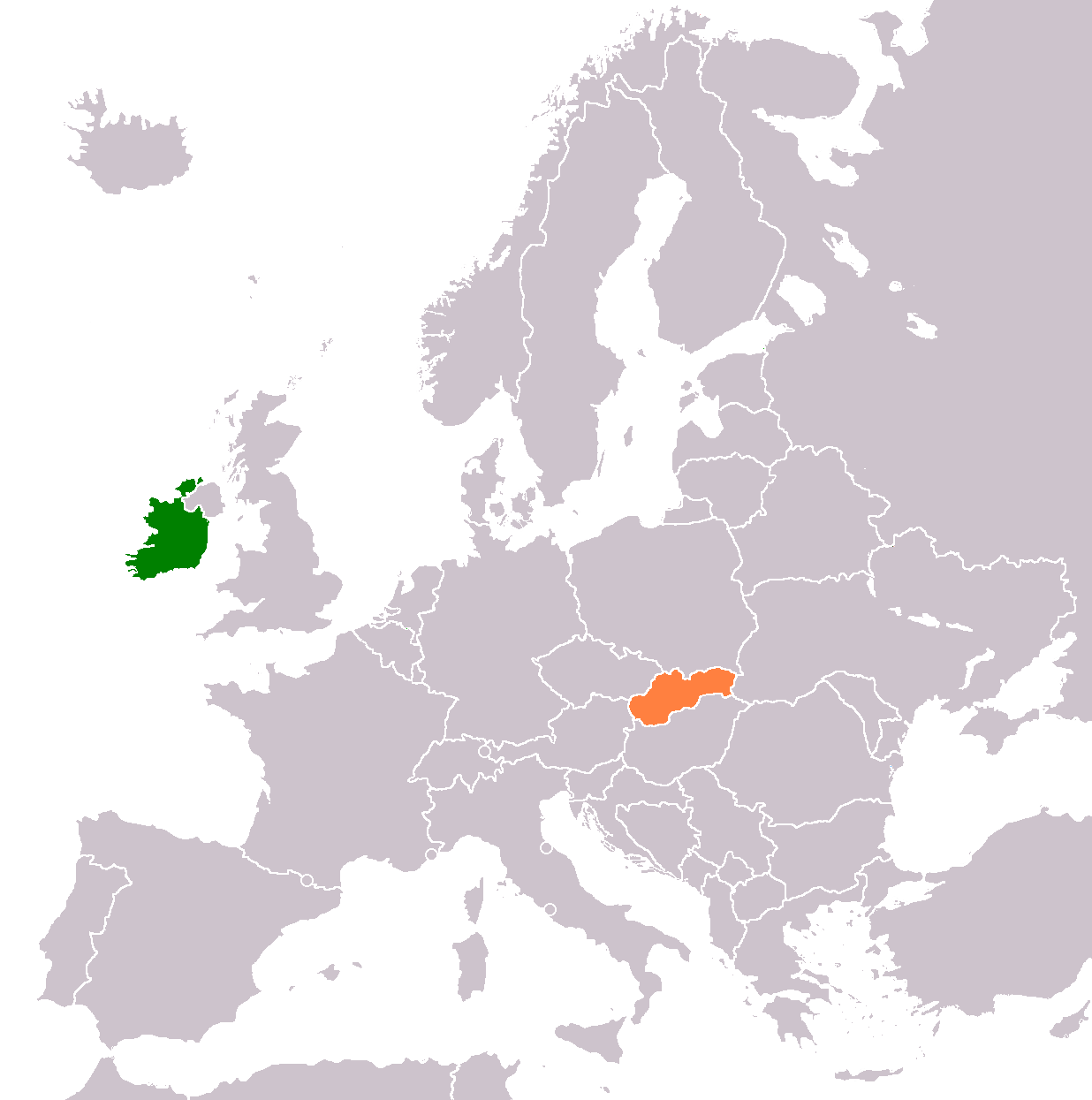 Ireland-Slovakia locator map. I made this map out of a licence free blank map of the world.